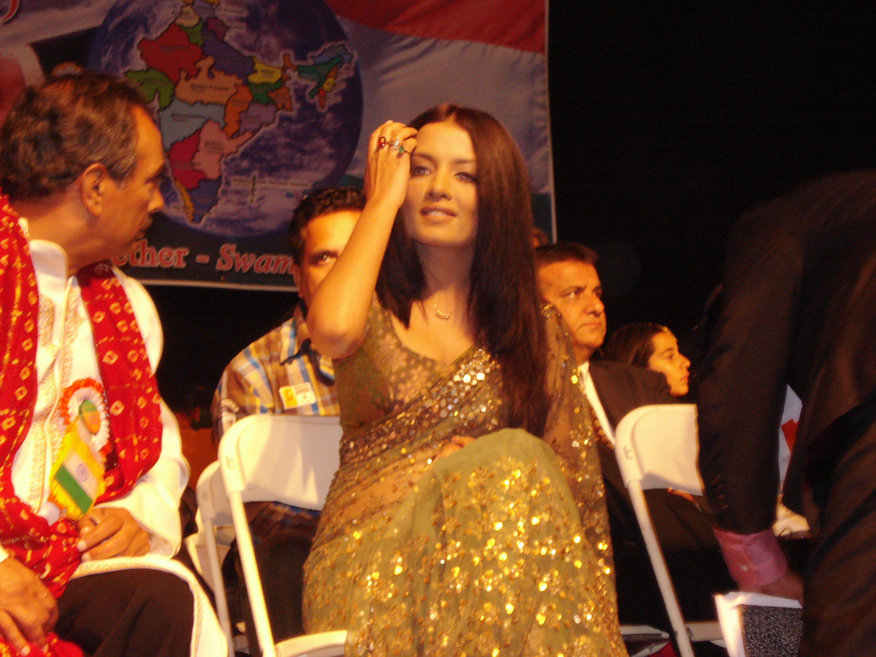 Celina Jaitley - Bollywood Actress at LA